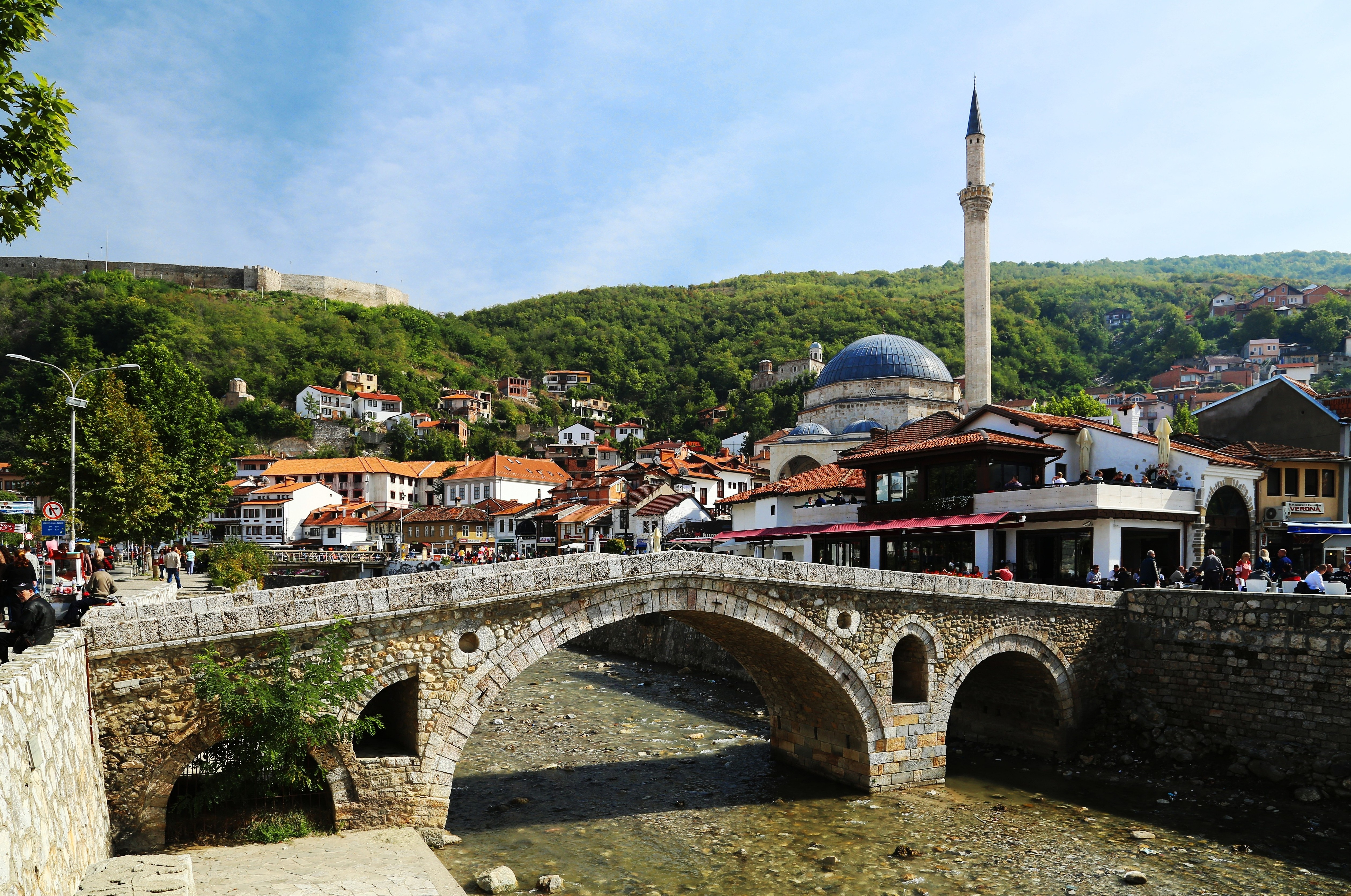 The Old Stone Bridge (alb. Ura e gurit; serb. Камеңи мост/Kameni most; turk. Taş köprüsu) is an Ottoman bridge and one of the landmarks of Prizren, Kosovo. It crosses the Prizrenska Bistrica (alb. Lumëbardh) river and is suspected to be from the late fifteenth century, although there are only few historical sources. The photograph displays the bridge, with the Sinan Pasha Mosque clearly being visible in the background. On the left side of the photo, the outer wall of Kaljaja, Prizren's Fortress can be seen.